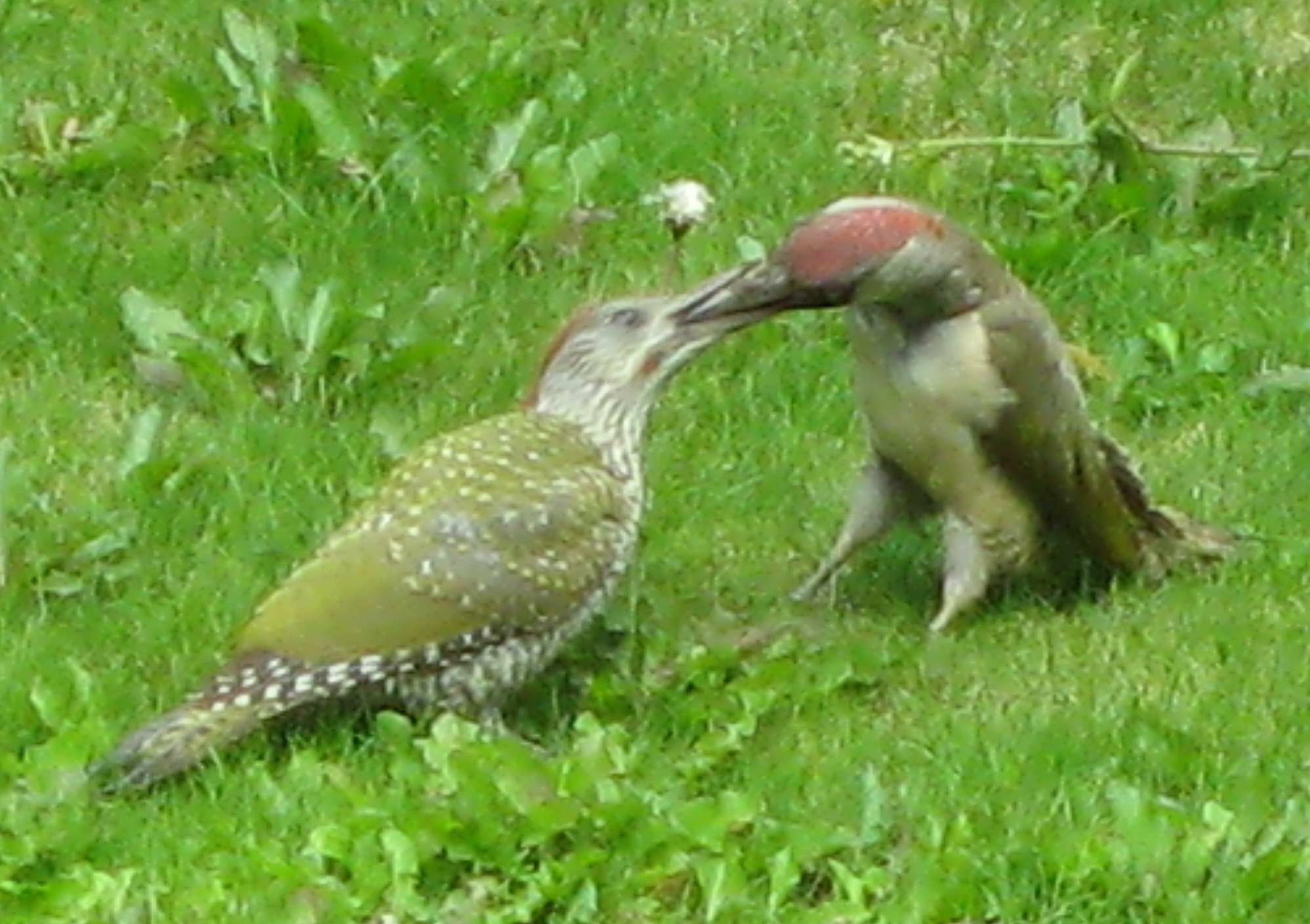 Adult green woodpecker feeding a juvenile.